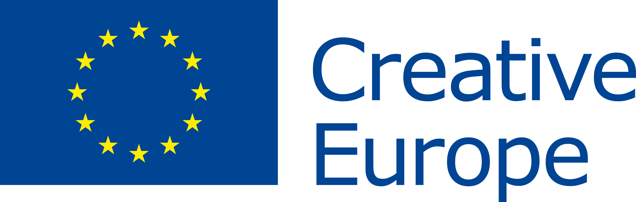 Logo of the Creative Europe Programme